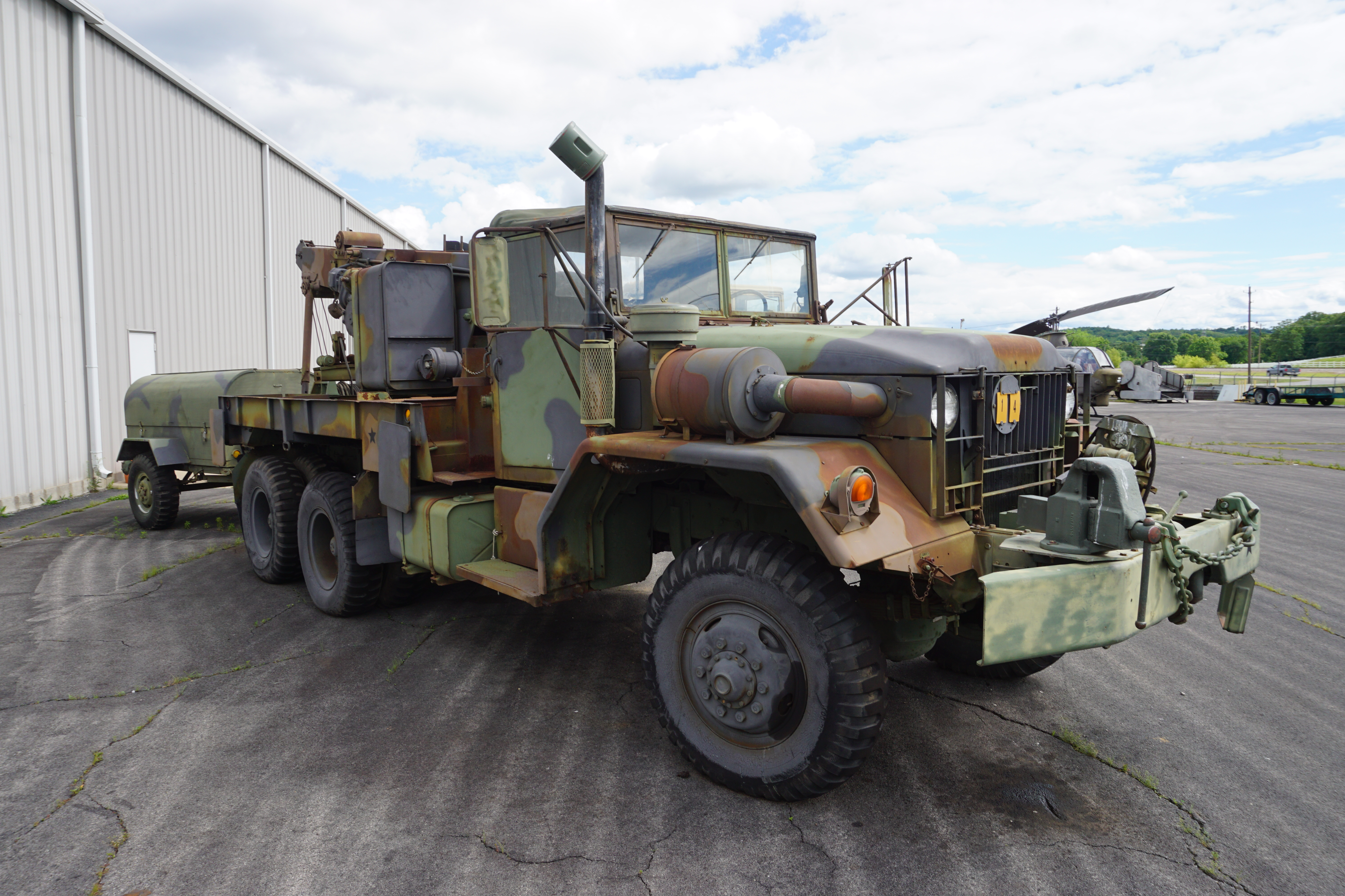 An M54 5-ton 6x6 truck at the Arkansas Air & Military Museum in Fayetteville, Arkansas (United States).